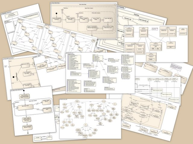 A collage of UML diagrams including use case diagram, class diagram, activity diagrams, sequence diagrams, deployment diagram,component diagrams, composite structure diagram, package diagrams.